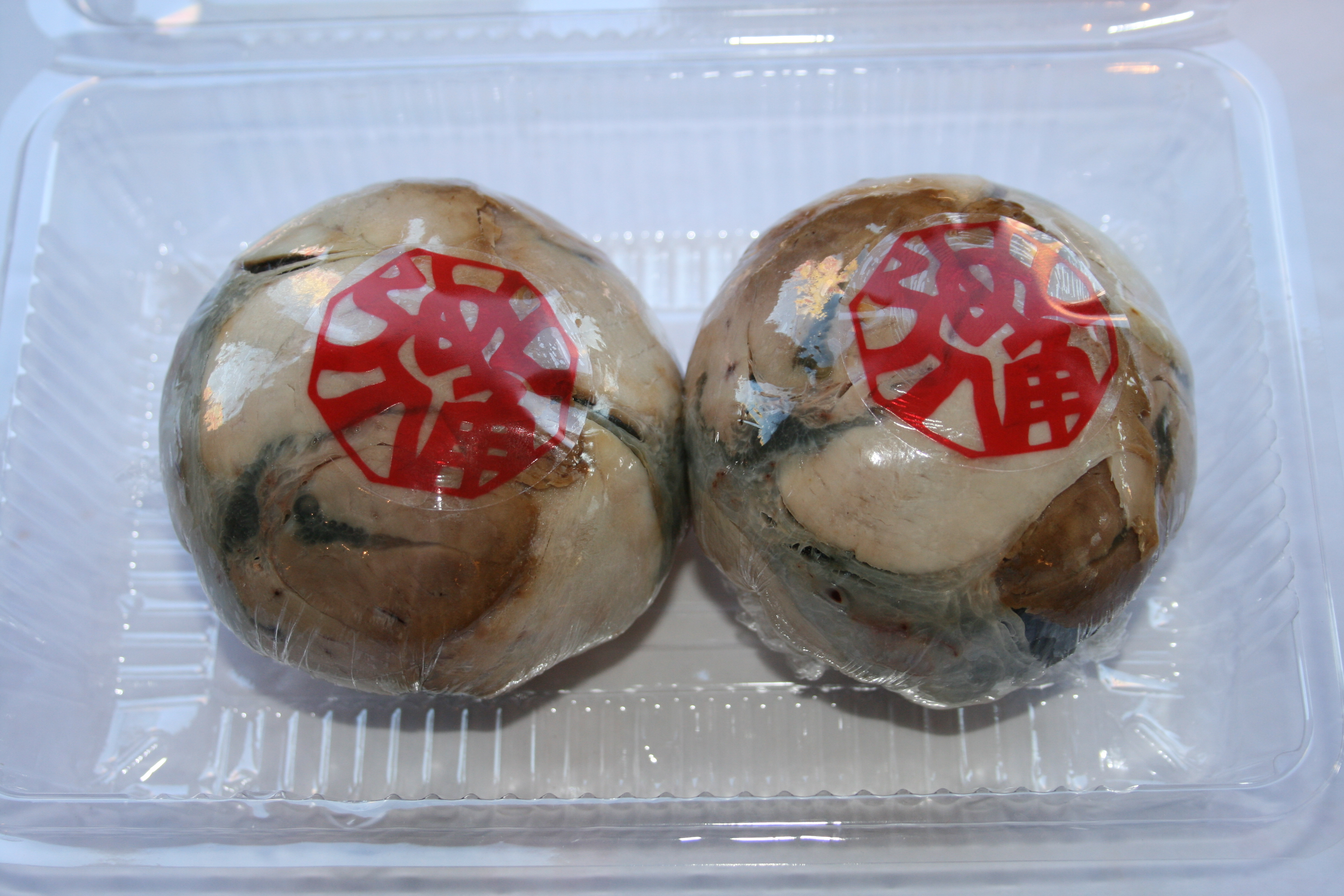 tya-shu-onigiri